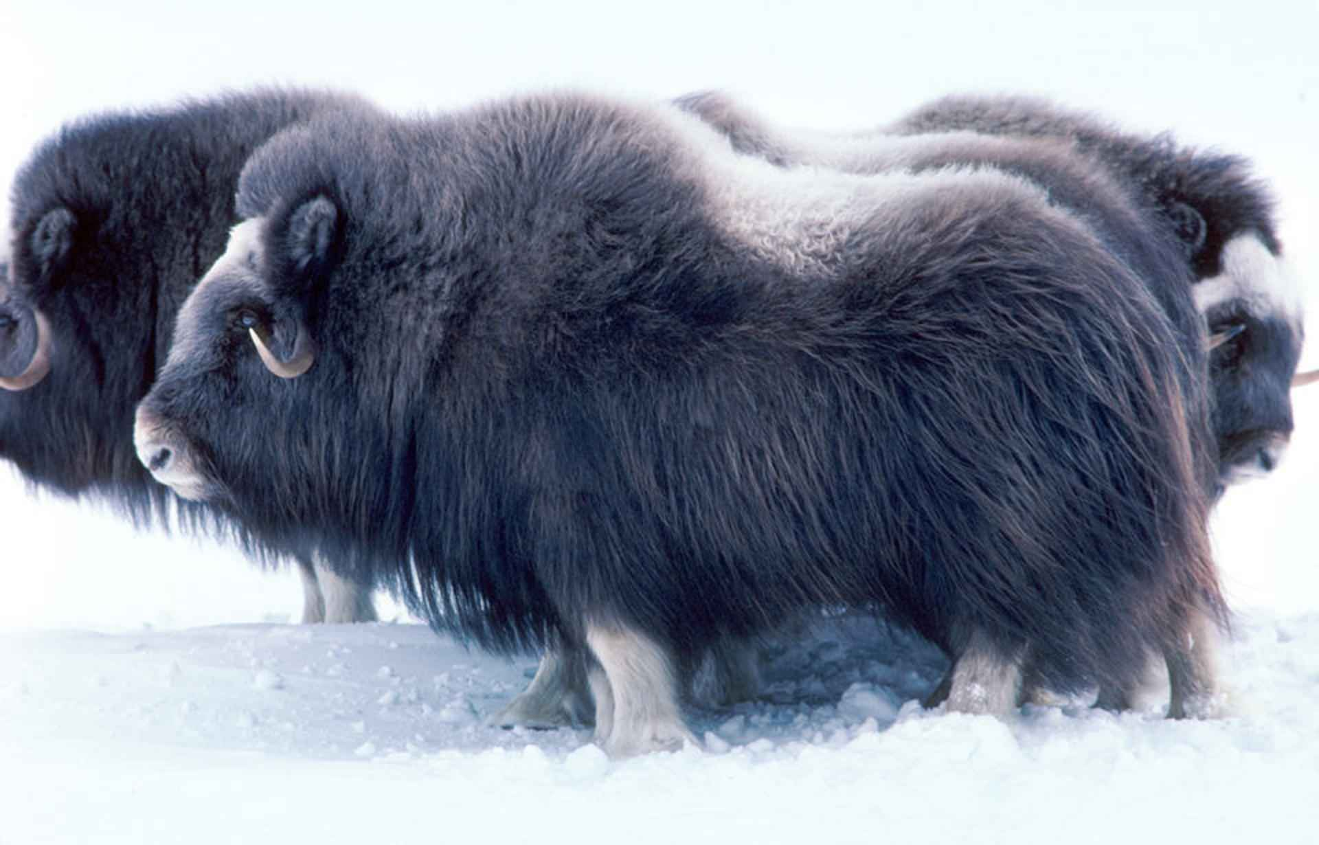 Image title: Musk ox mammals at Alaska Image from Public domain images website